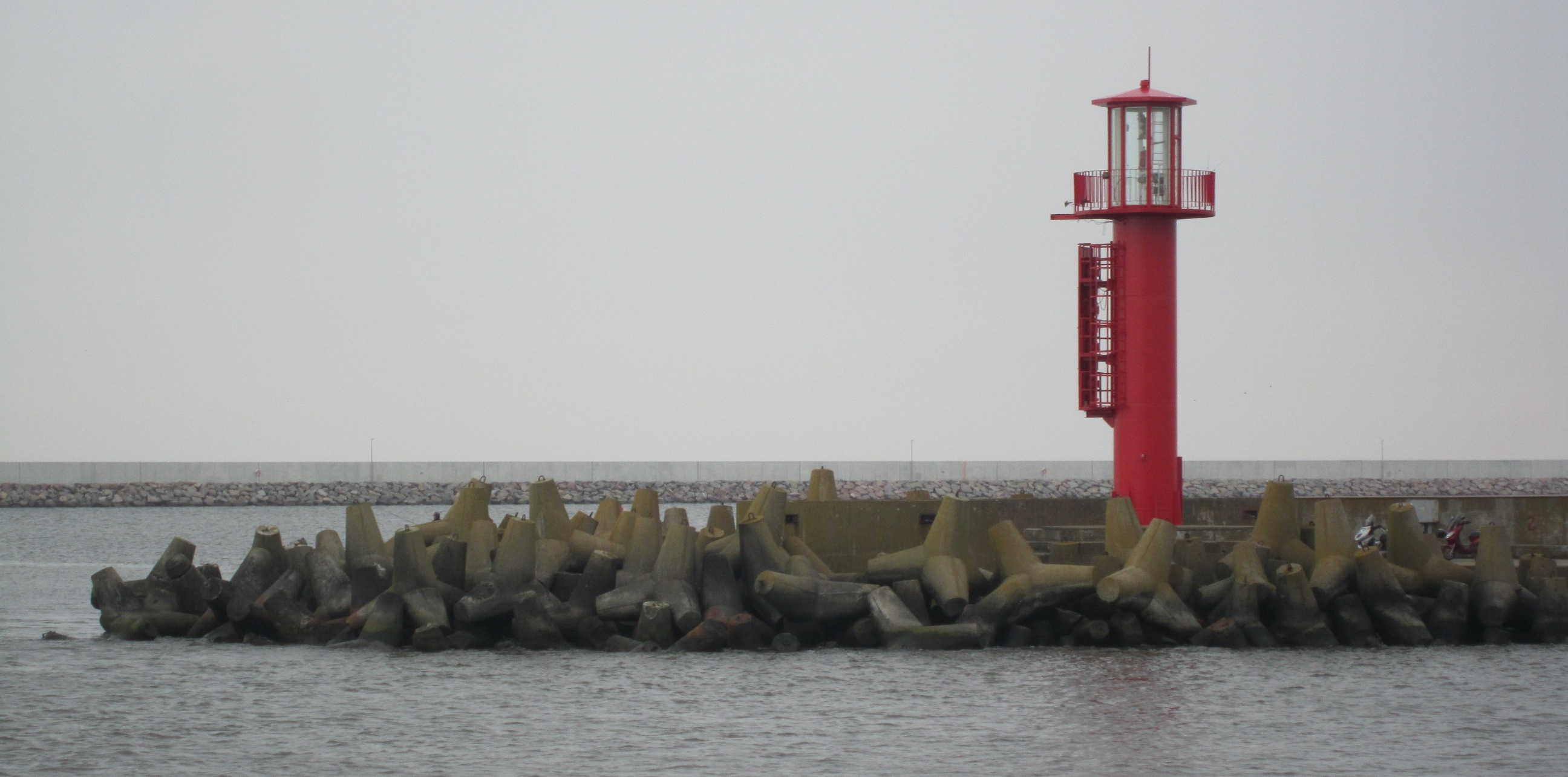 Eastern Molefire at the Swine mouth